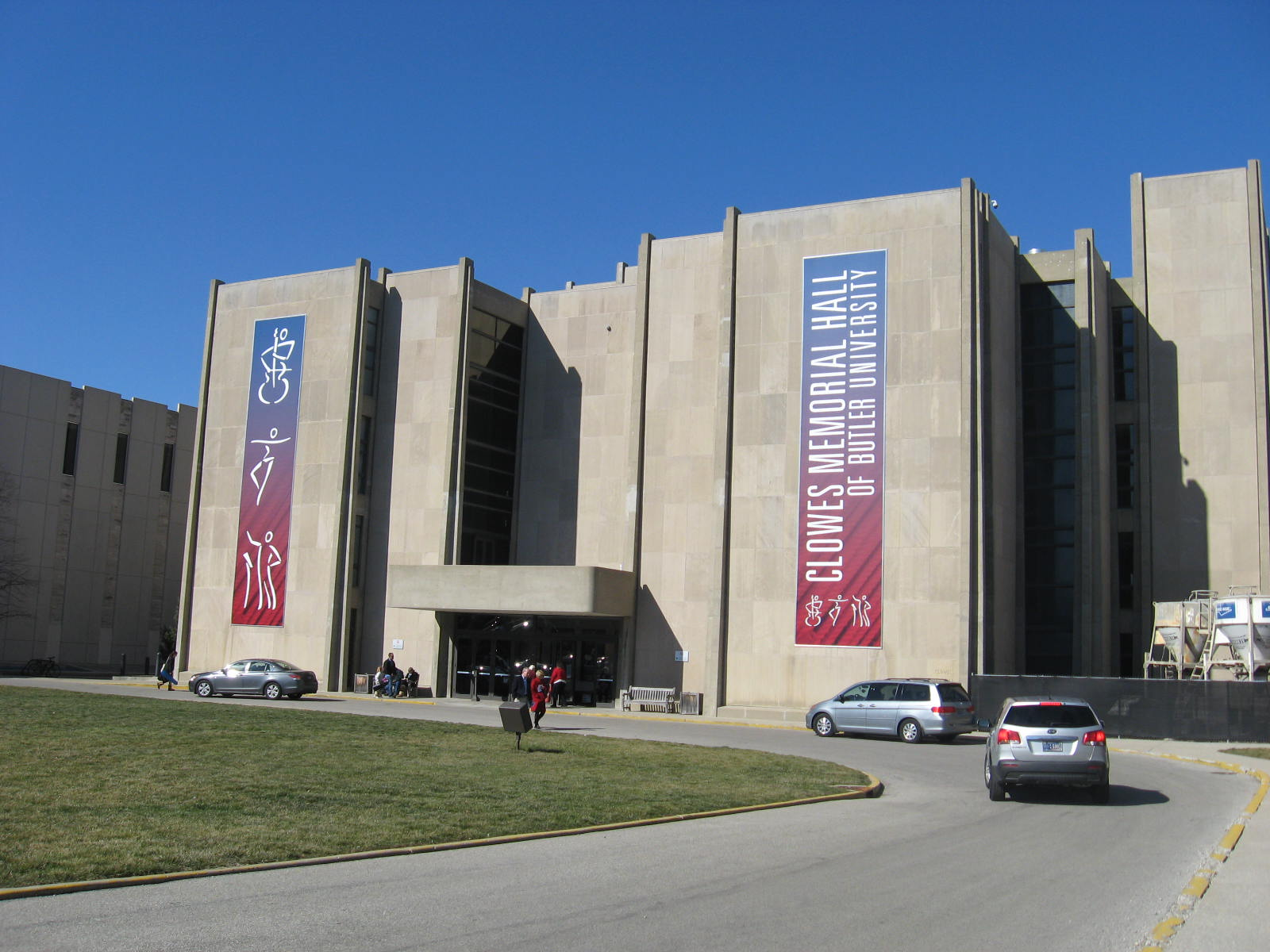 Clowes Hall